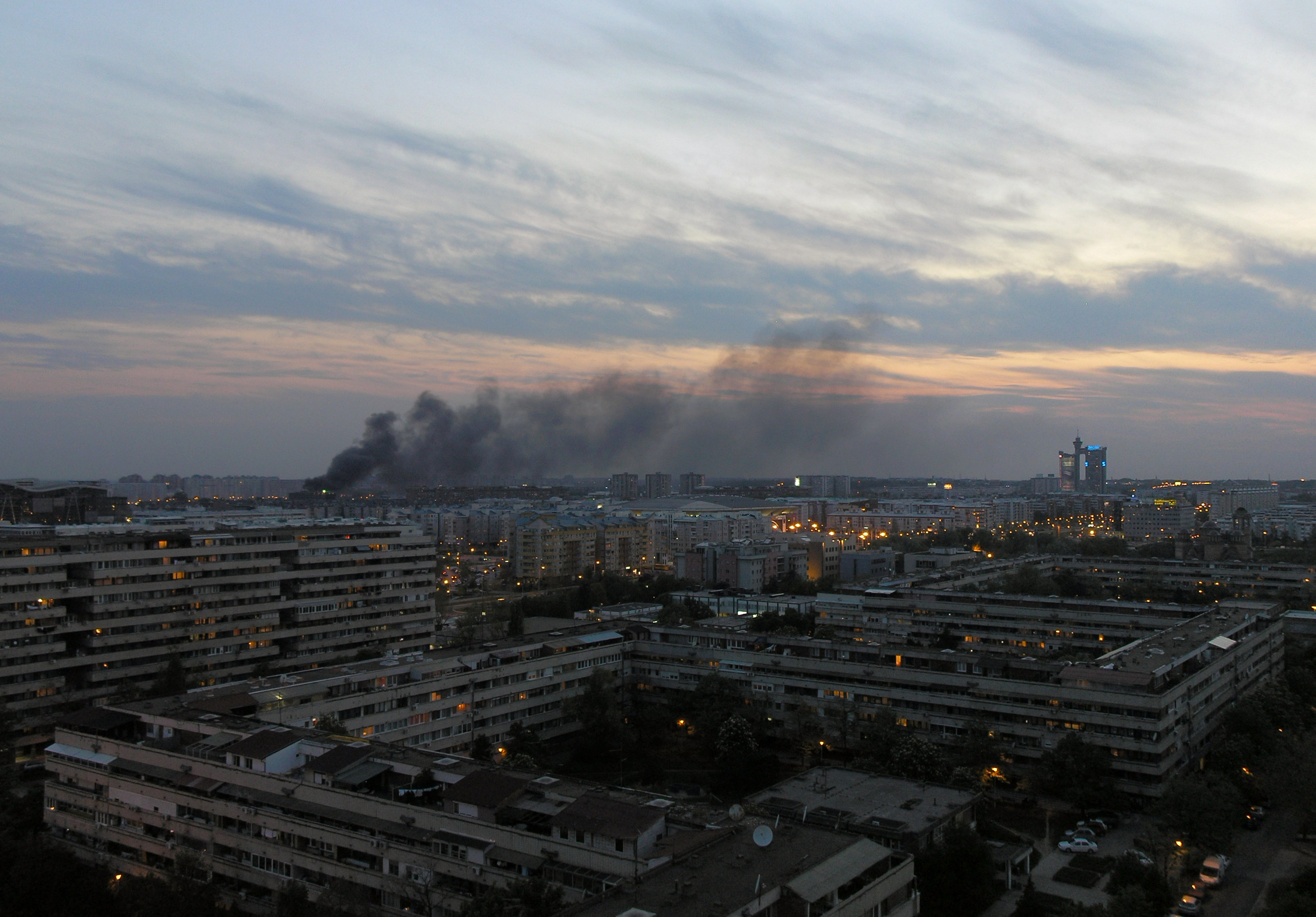 Dense smoke over Novi Beograd, caused by fire near 'Bellville', a Roma district. [1]